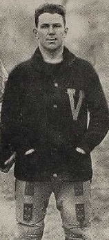 crop of Vanderbilt backfield coach Lewie Hardage circa 1922. He played football at Vanderbilt and Auburn, and later coached at Oklahoma.